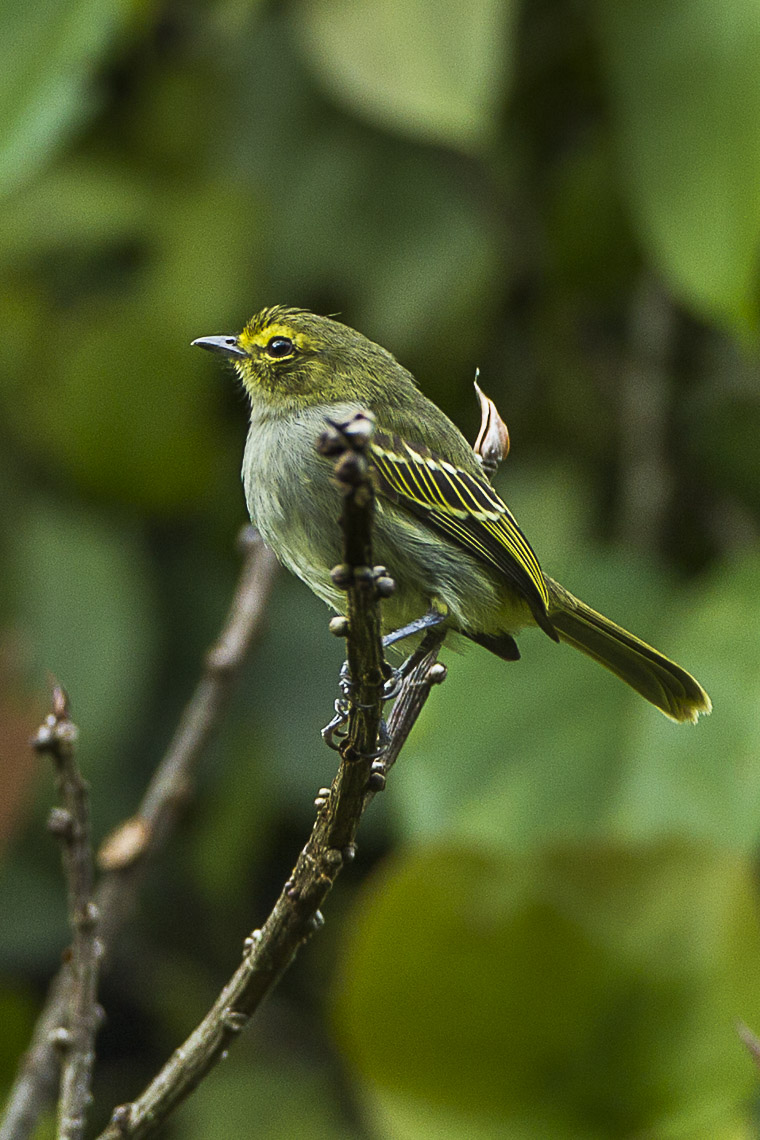 Golden-faced Tyrannulet - Colombia_S4E9917